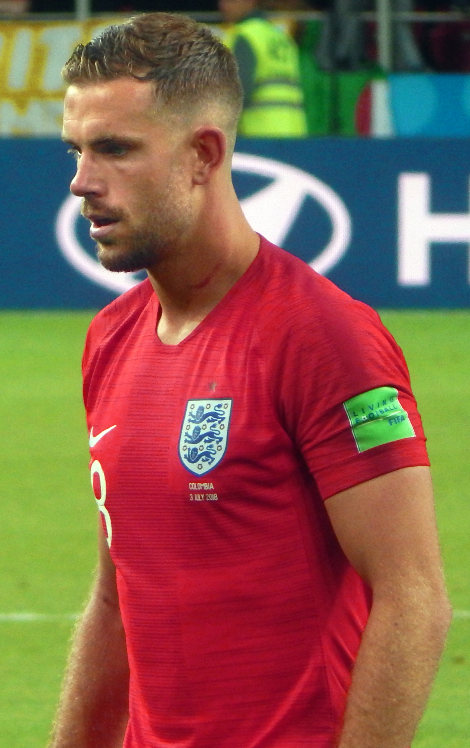 FIFA World Cup 2018, Round of 16, Colombia vs. England